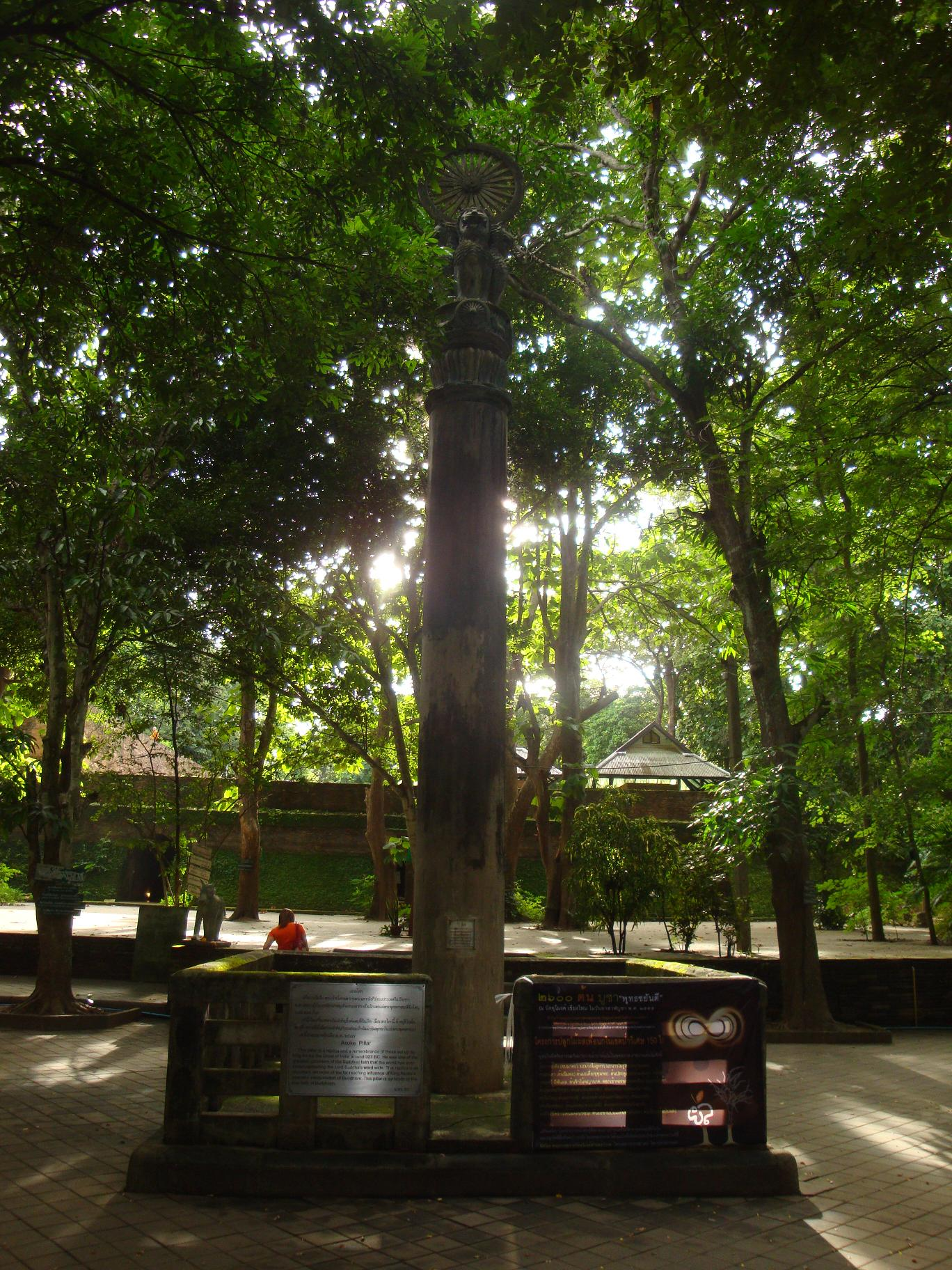 A replica of Ashok Pillar at Wat Umong in Chiang Mai, Thailand. Built by King Mangrai in 13 century. The pillar is a replica of the original built by King Ashok of India.